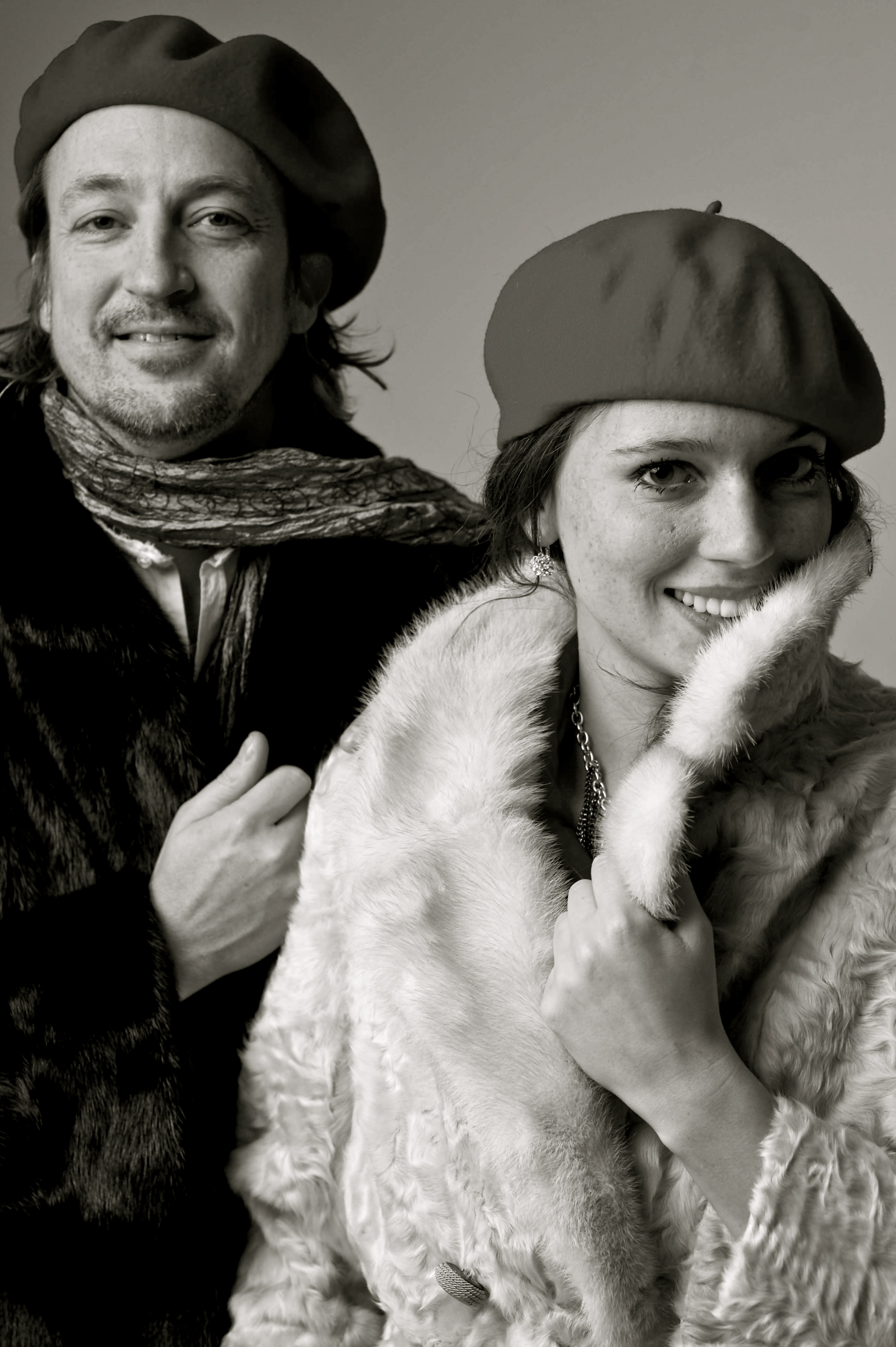 Bara Vänner